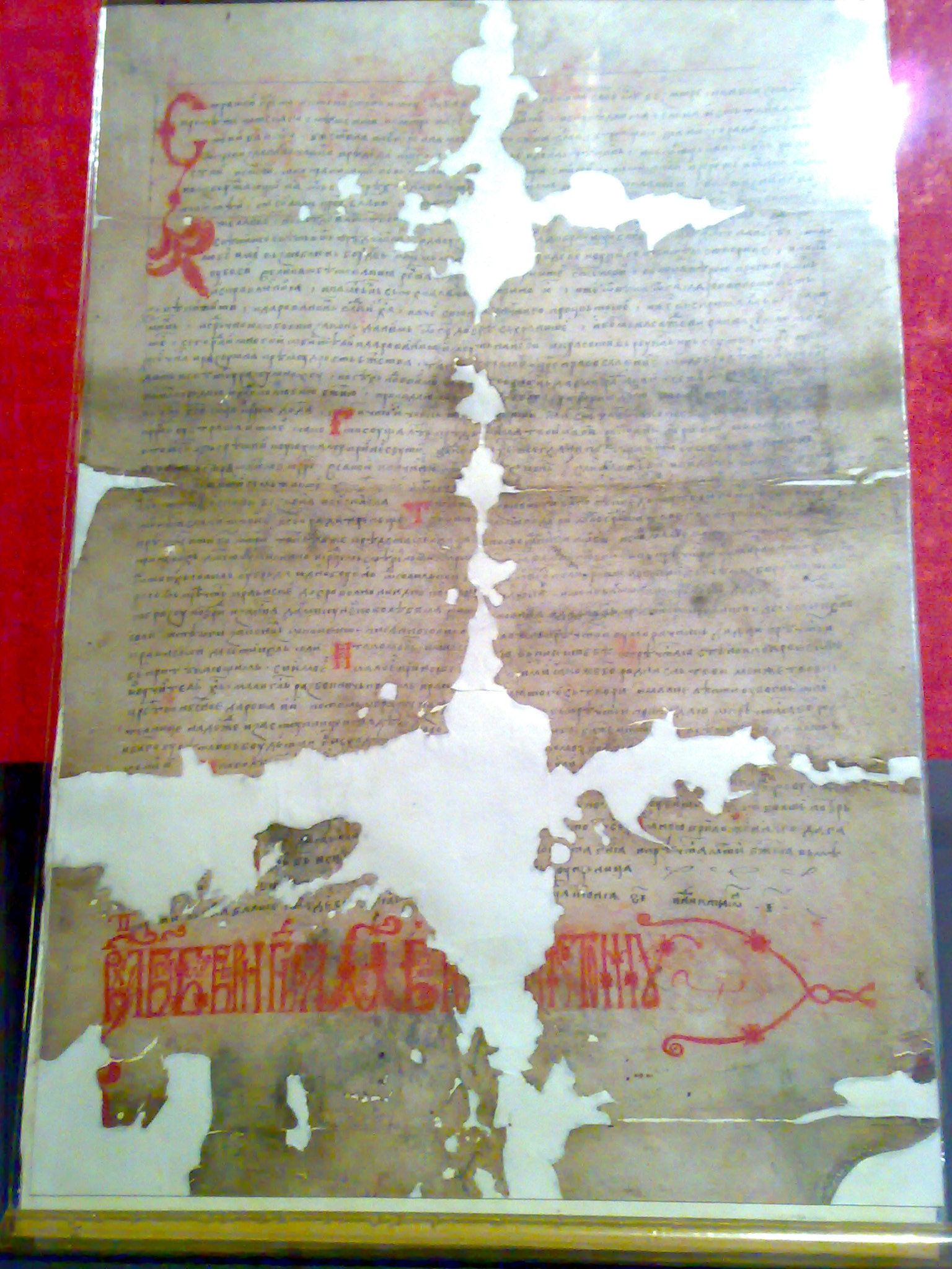 Miroslav's Gospel, Montenegro, 11th century. Remains in Histoical Museum, Cetinje.